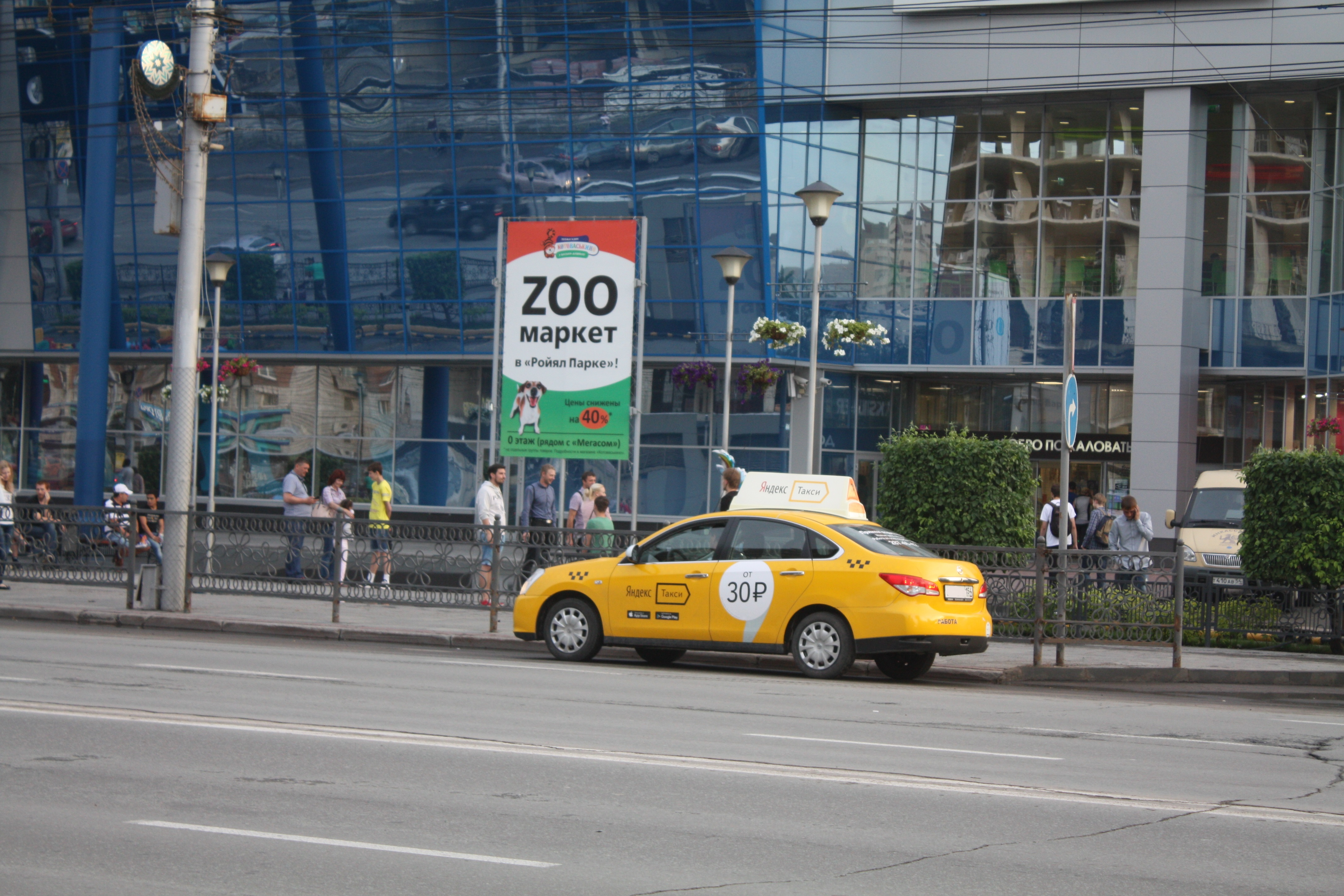 Yandex.Taxi in Novosibirsk.